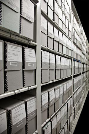 Interior shot of the storage facilities at the Archives of American Art's Washington, D.C. headquarters.